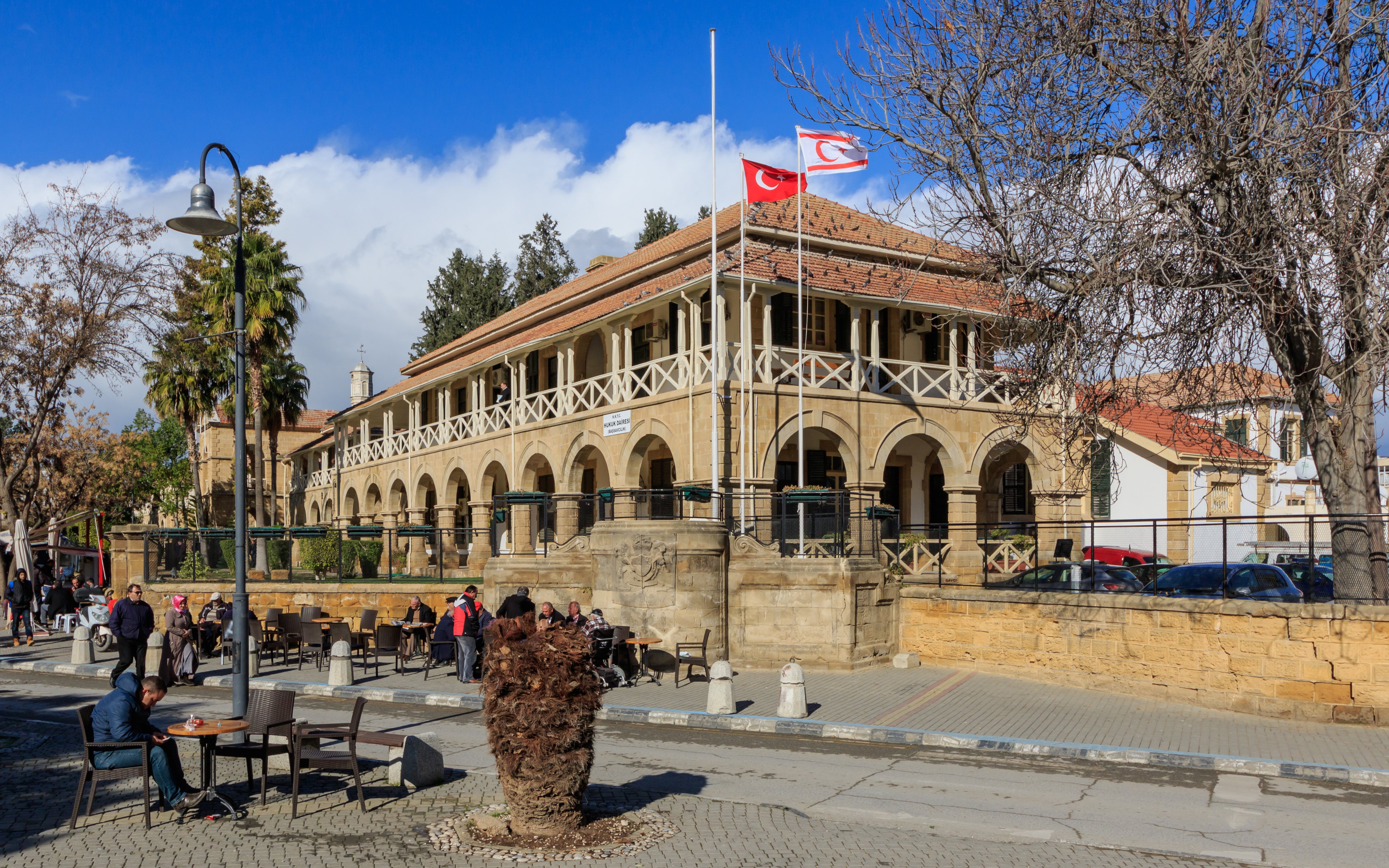 Atatürk Square in Nicosia, Cyprus